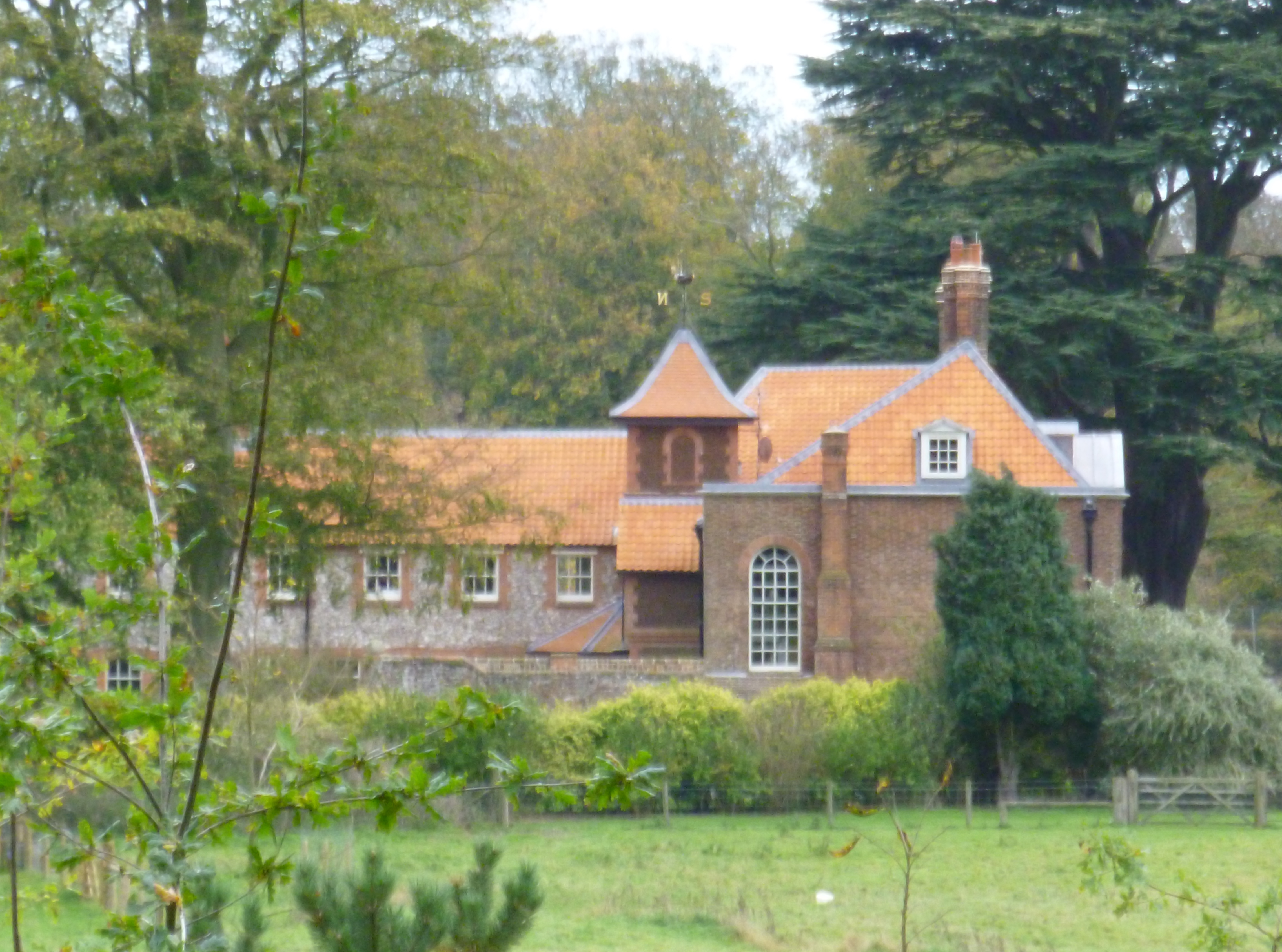 Anmer Hall near Sandringham in Norfolk